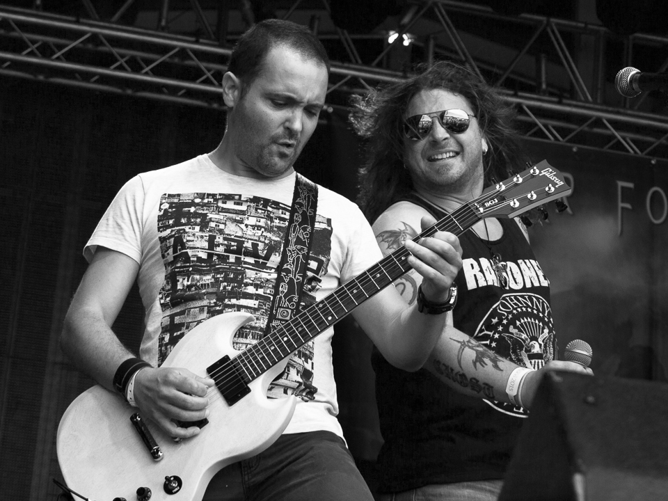 Alex Santos and Rob Mancini Scar For Life at Vagos Open Air 2015.